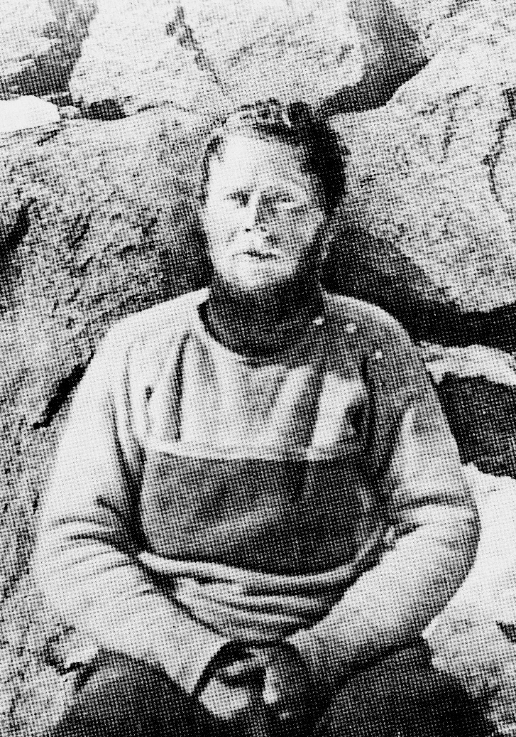 Douglas Mawson after he returned from the Far Eastern party—the sole survivor—during the Australasian Antarctic Expedition.